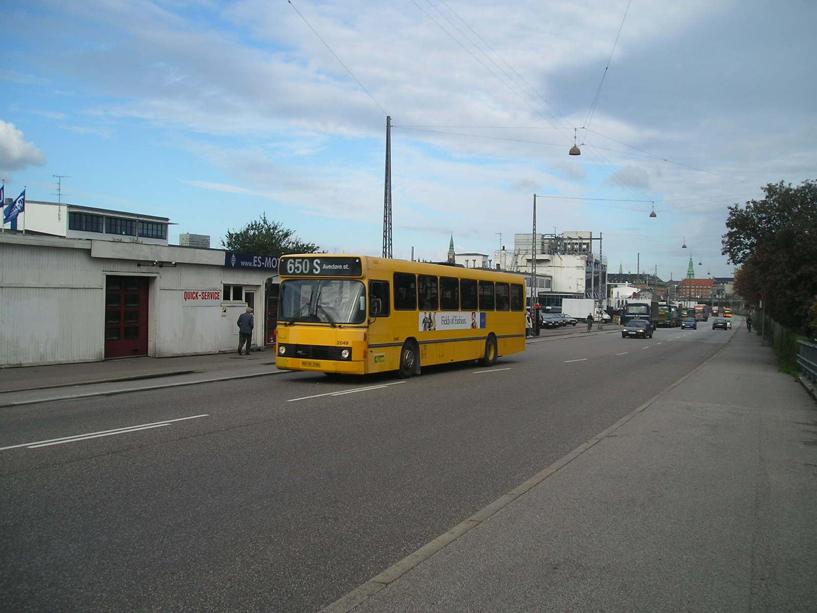 HT bus line 650S on Ingerslevsgade in Vesterbro in Copenhagen.